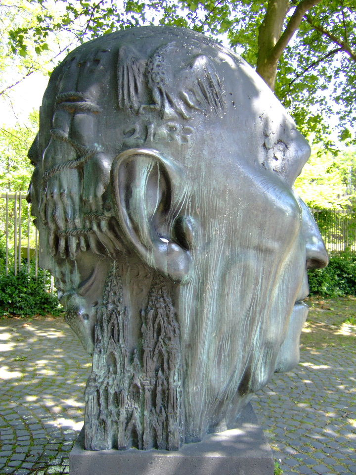 Plastic of Konrad Adenauer in Bonn nearby the former Federal Chancellery made 1982 by Hubertus von Pilgrim. The plastic is exhibited there since May 1982 and belongs to the city of Bonn.